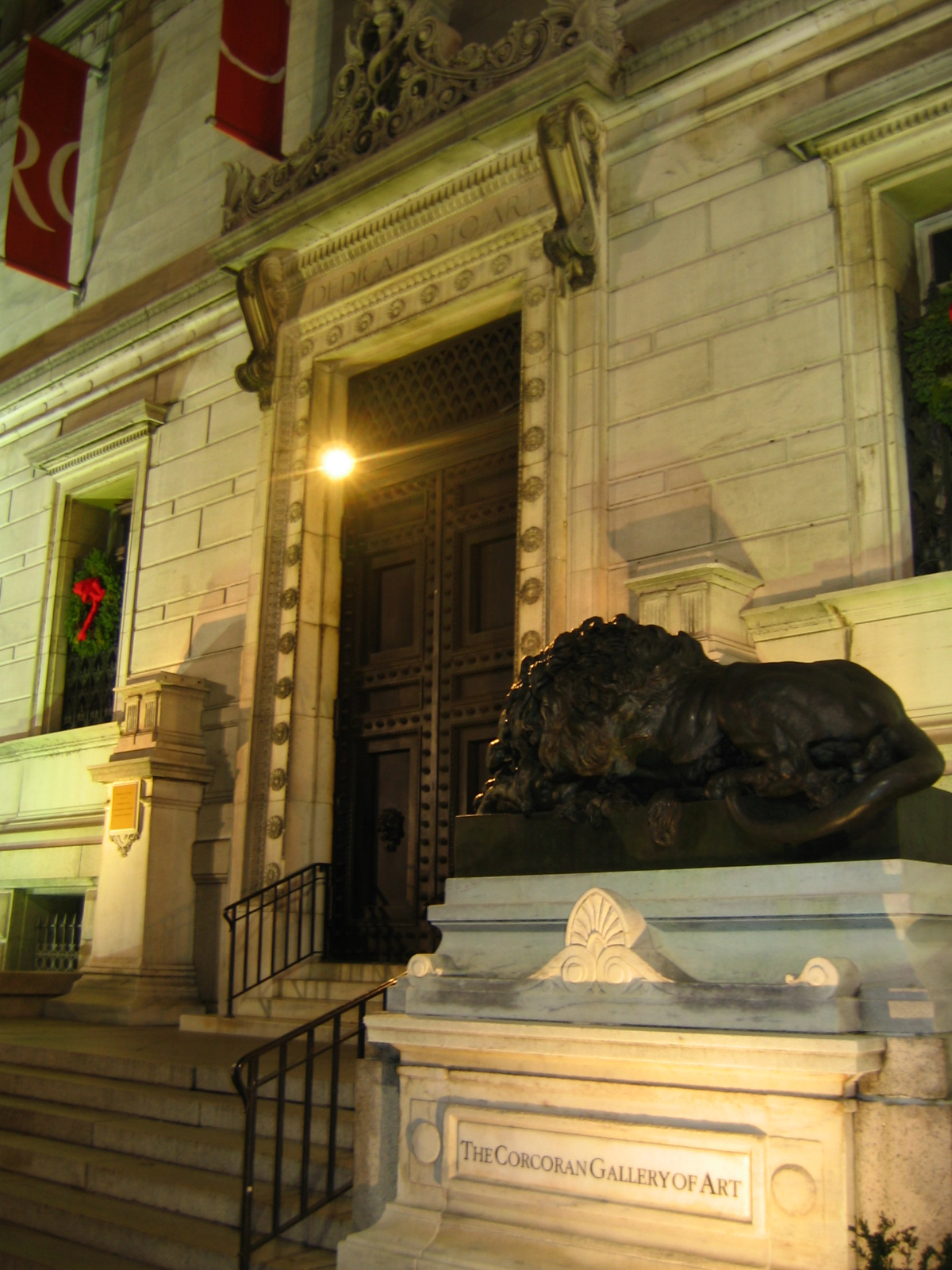 Corcoran Gallery of Art, main entrance on 17th Street NW across from the Ellipse, in Washington, D.C. Photo taken by Kmf164 on December 4, 2005.